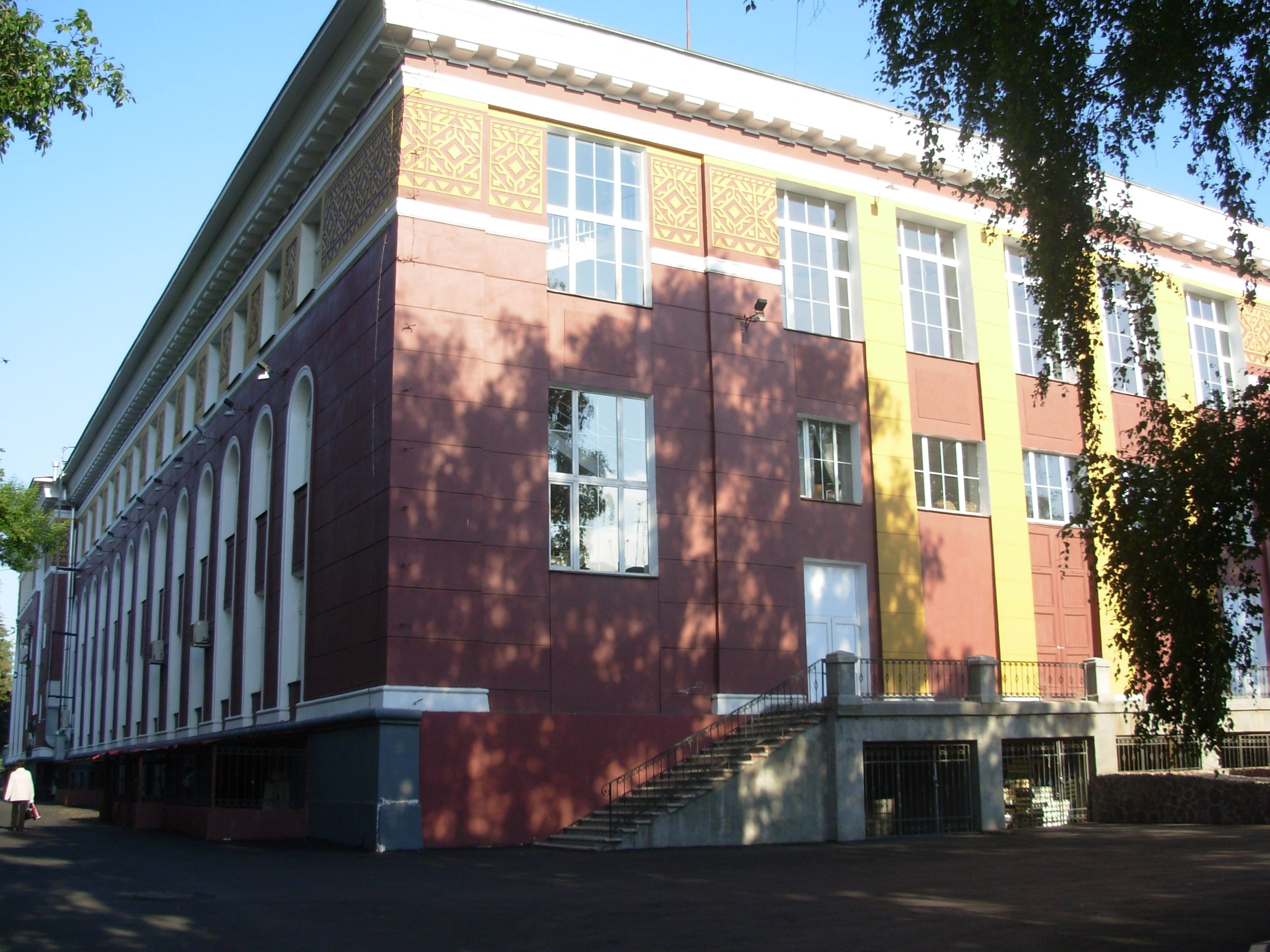 street